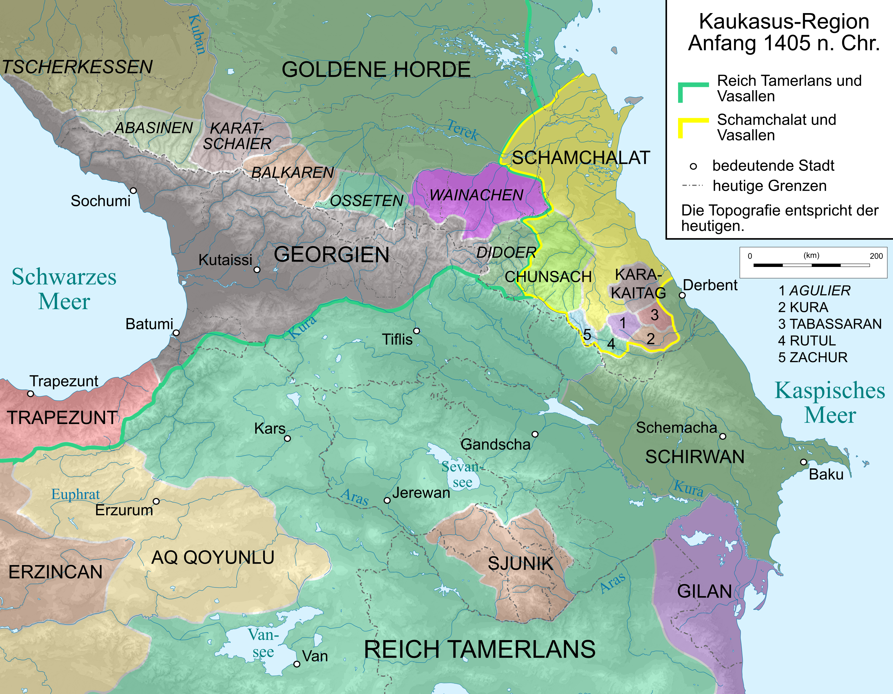 Map of Caucasus Region 1405 in German.